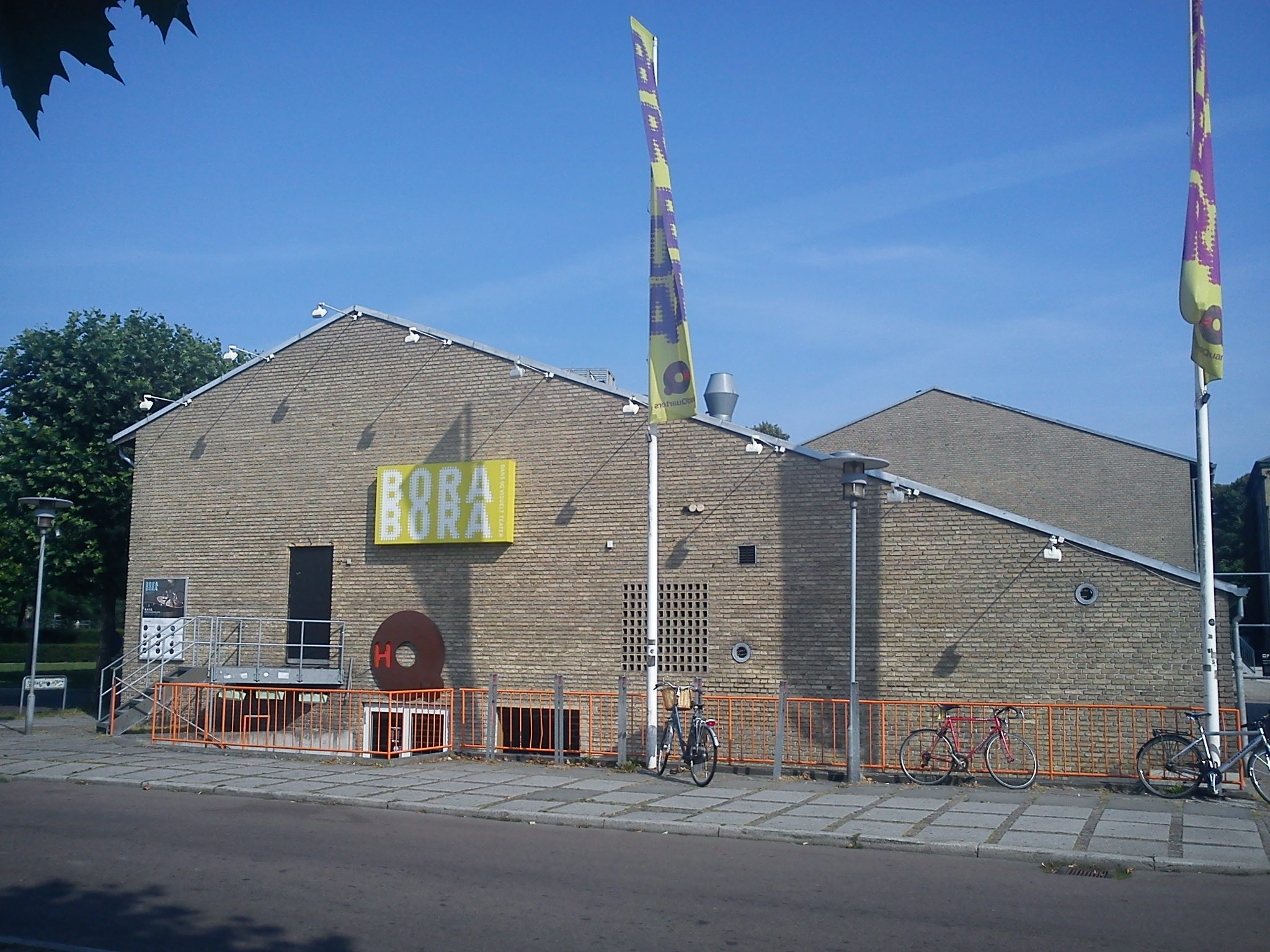 Bora Bora. Dance and visual theatre in Aarhus. Located in the former school of Brobjergskolen. There is a combined foyer, bar and café by the name of HeadQuarters (HQ) in the basement, often presenting live music.